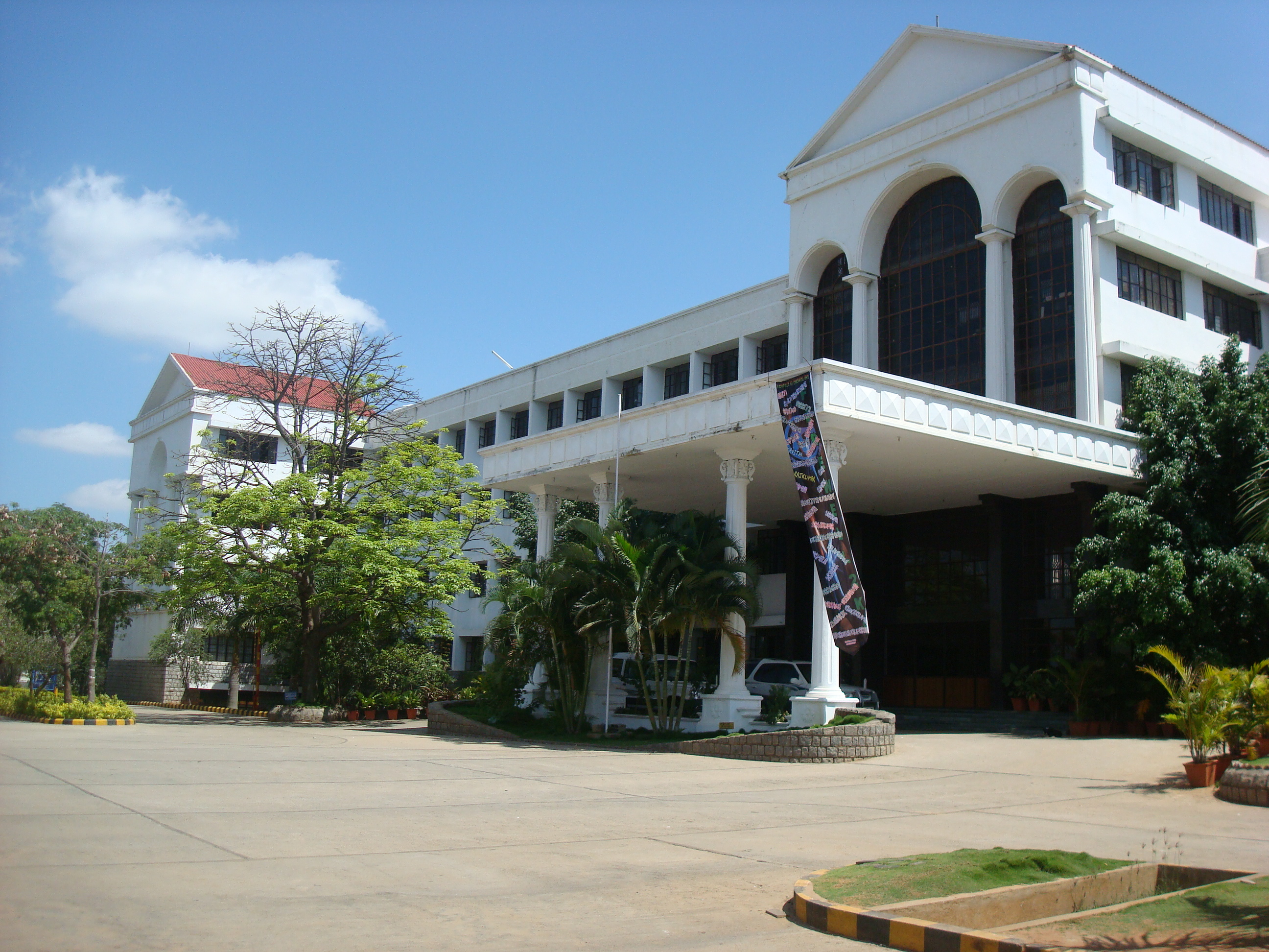 Main building of Adhiyamaan College of Engineering, Hosur, Tamilnadu